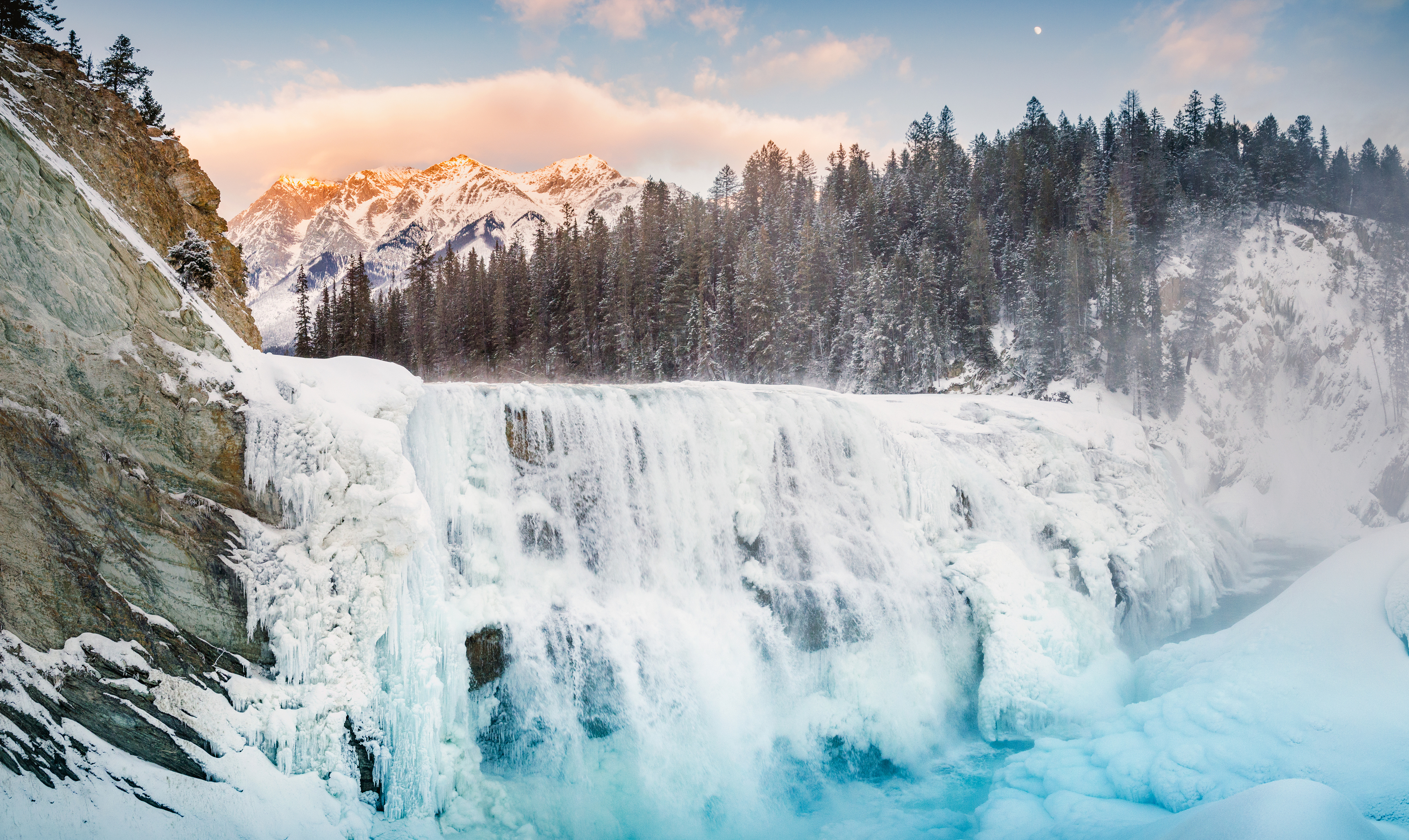 Sunset by Wapta Falls, Yoho National Park, Alberta, Canada